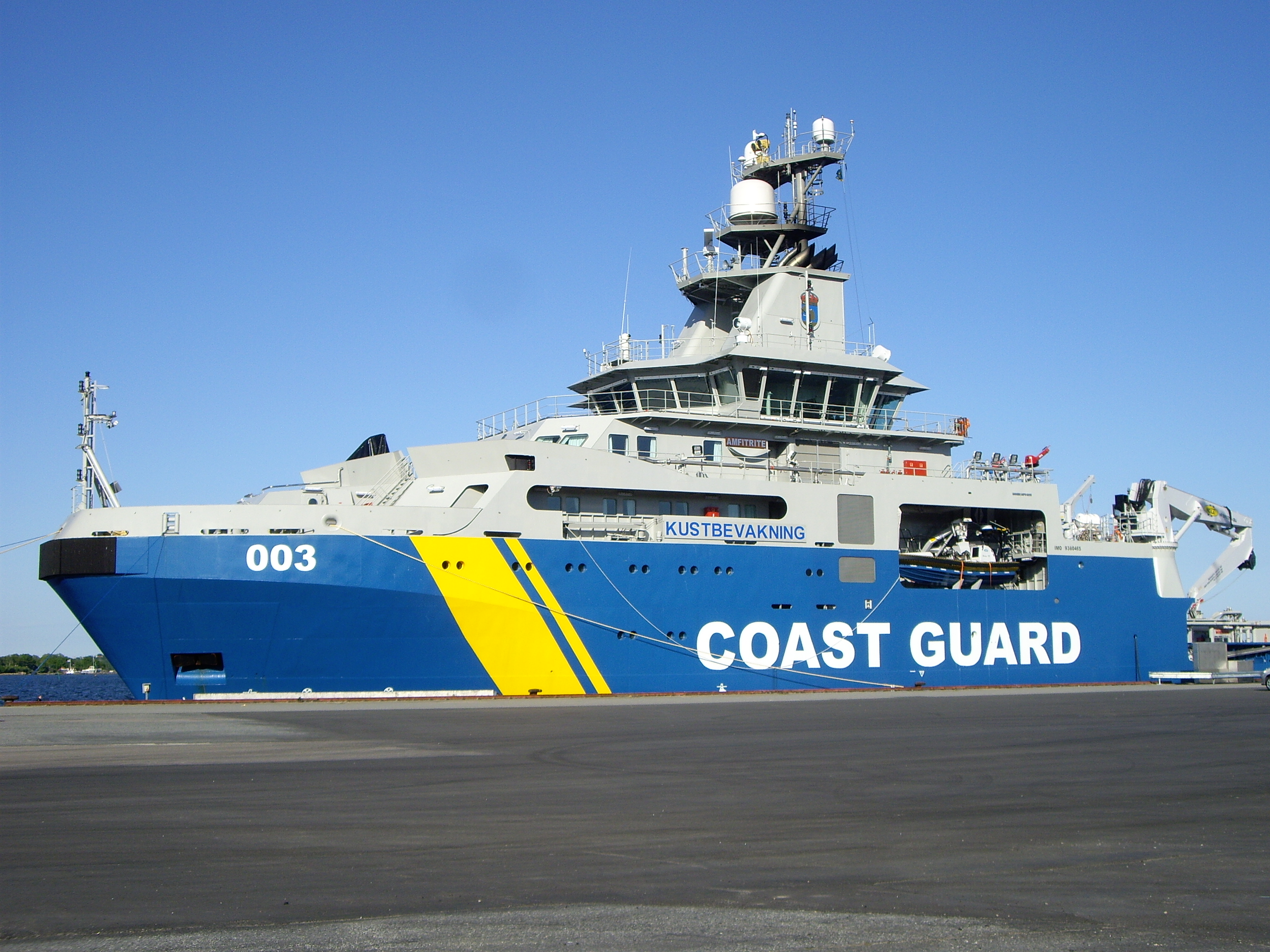 M/S KBV 003 Amfitrite; a vessel of the Swedish Coast Guard launched in 2010 (more information; KBV site) Photographed in Karlskrona 56°10′1.2″N 15°35′34.8″E / 56.167°N 15.593°E one day after delivery from Romania. IMO Number: 9380465 MMSI Number: 266288000 Callsign: SBIW Length: 81 m Beam: 16 m